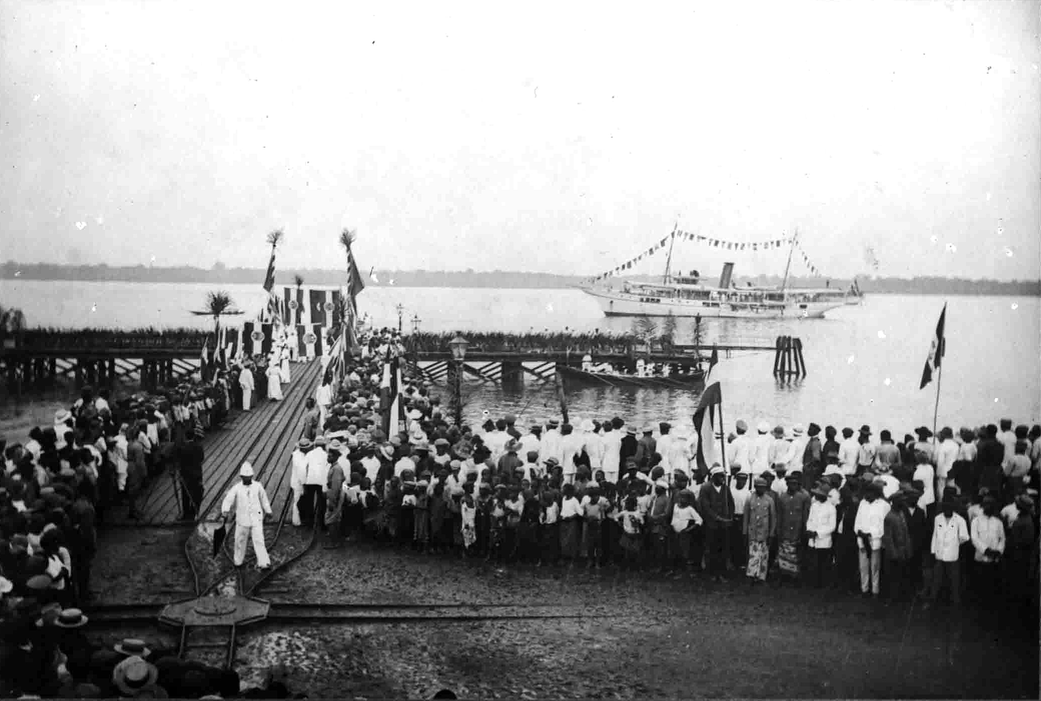 Landing bridge in Duala during the German colonial period, about between 1902 and 1908. The ship in the background is probably the German government ship Herzogin Elisabeth.